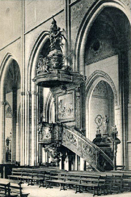 The pulpit in Uppsala Cathedral, Sweden, around 1905.